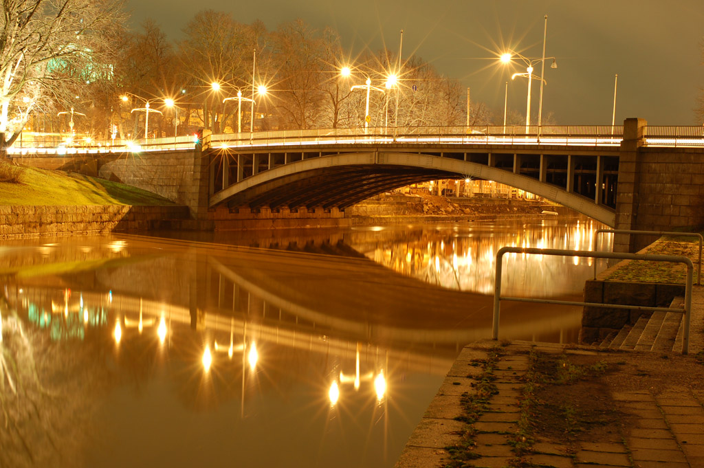 No cropping or other post-processing. I didn't expect the almost infrared-ish look on the trees. The aquamarine monster in the upper leftmost part of the frame (and its reflection) is the old observatory of Turku, illuminated by floodlights.